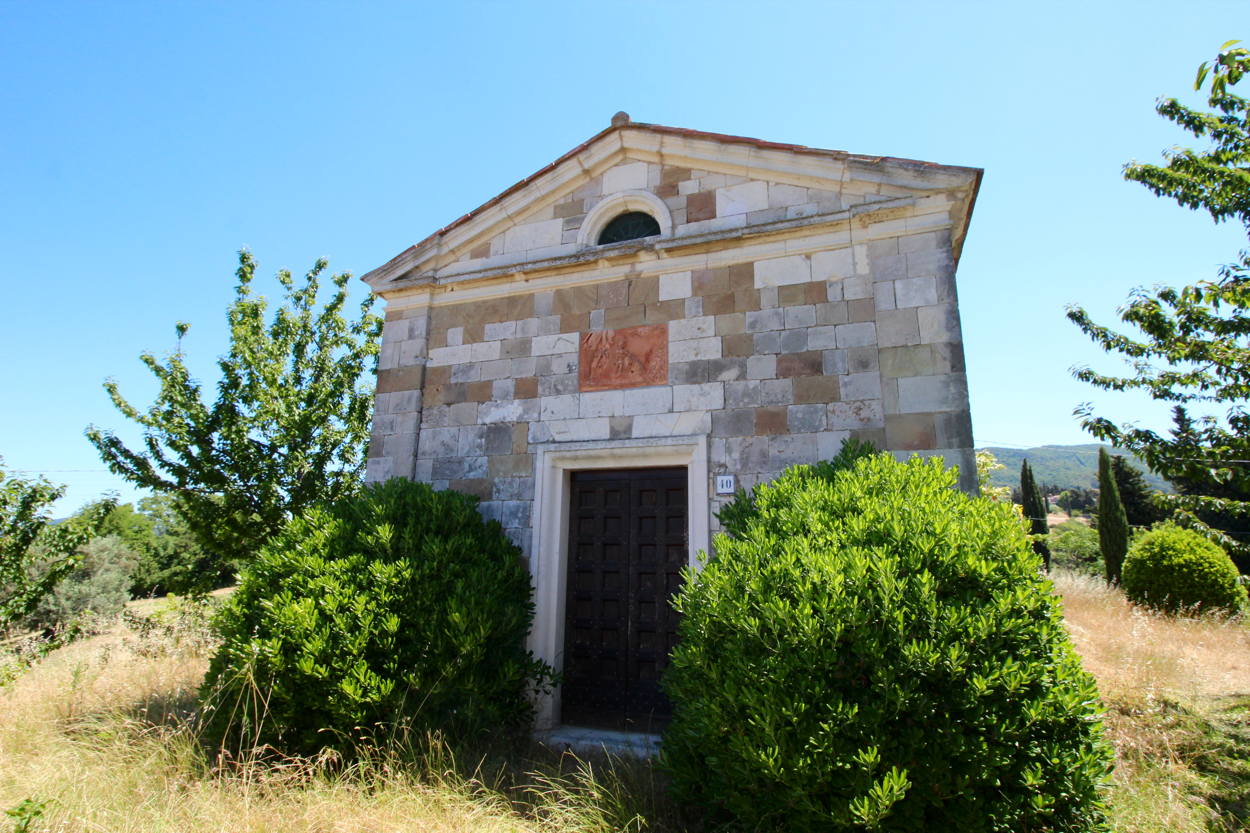 Oratory Oratorio di San Giovanni Battista, old Pieve of Castellina Marittima on the road to Le Badie, Province of Pisa, Tuscany, Italy